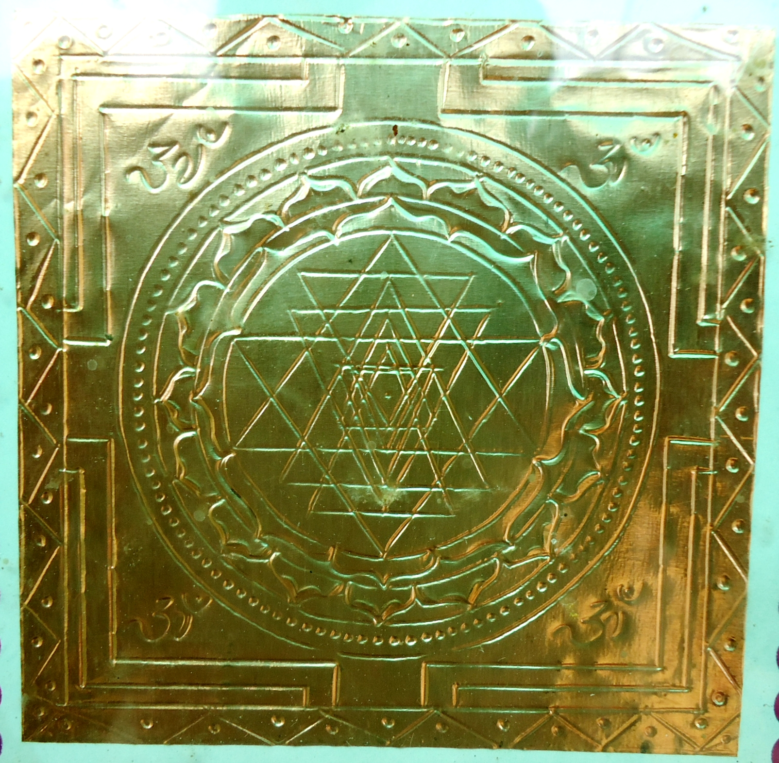 Sree chakram